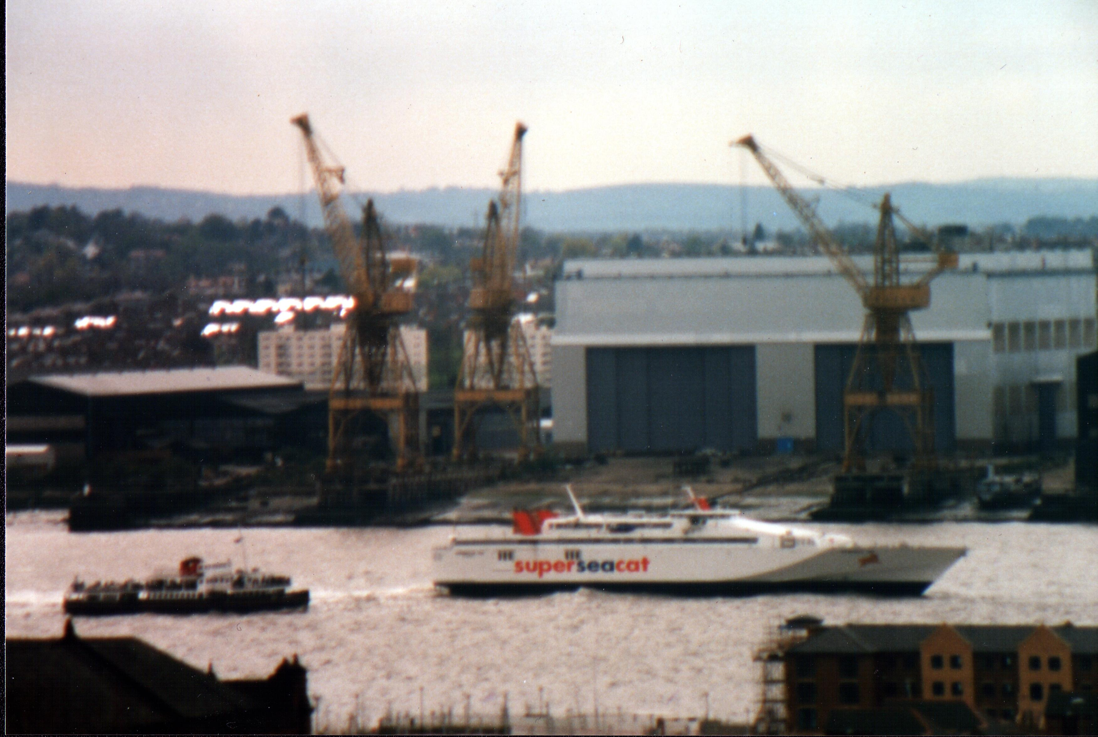 River Mersey with Cammel Laird in the back ground. With the HSC SuperSeaCat Two and Mersey Ferry in the fore ground. Taken with a very long lens.